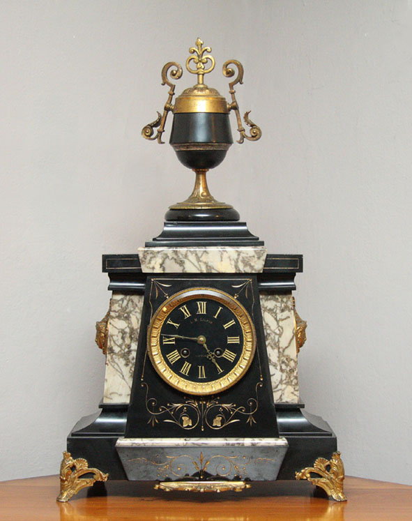 Zegar kominkowy L.M. Lilpop